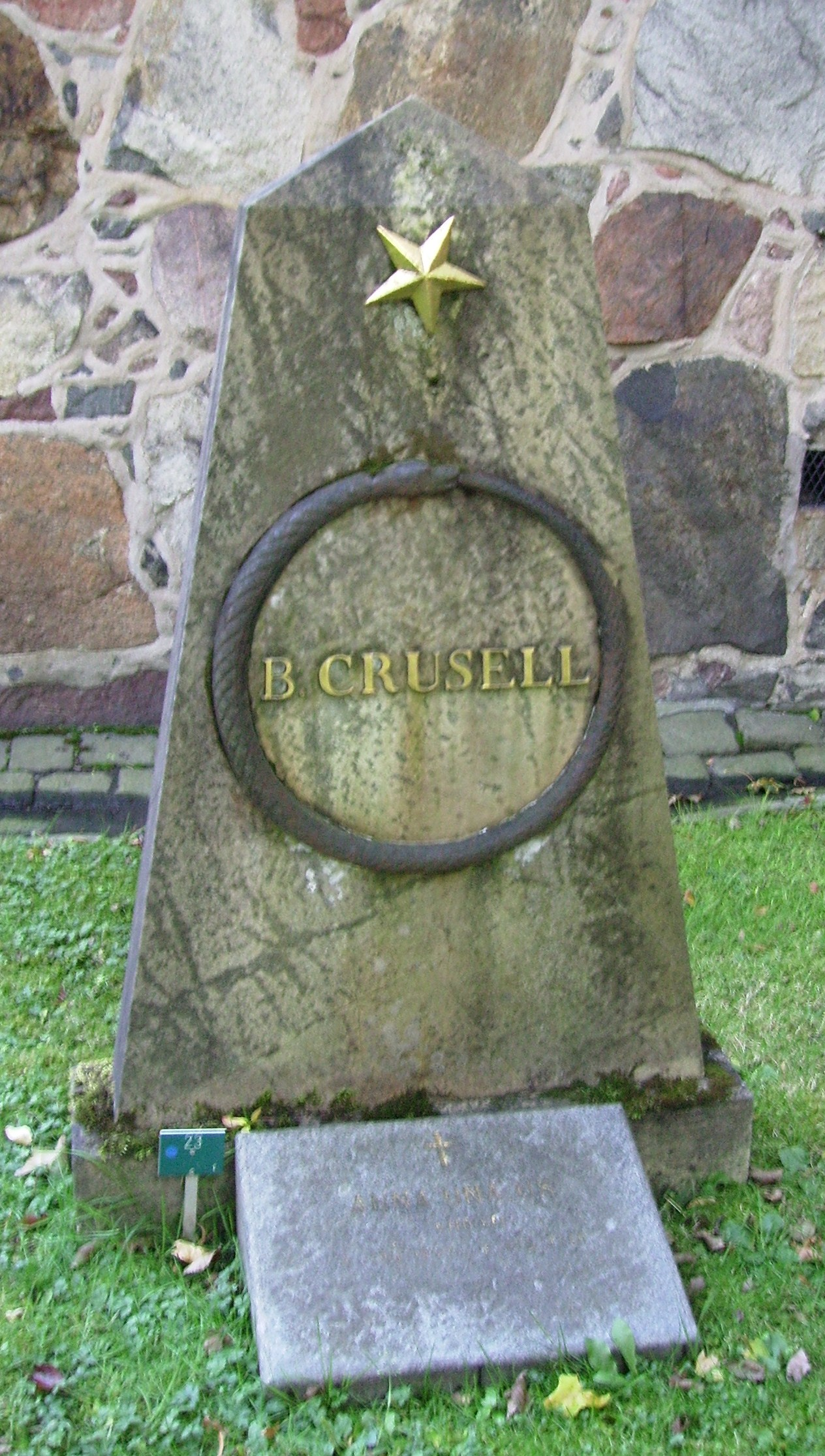 Picture of Bernhard Crusell's grave at Solna kyrkogård